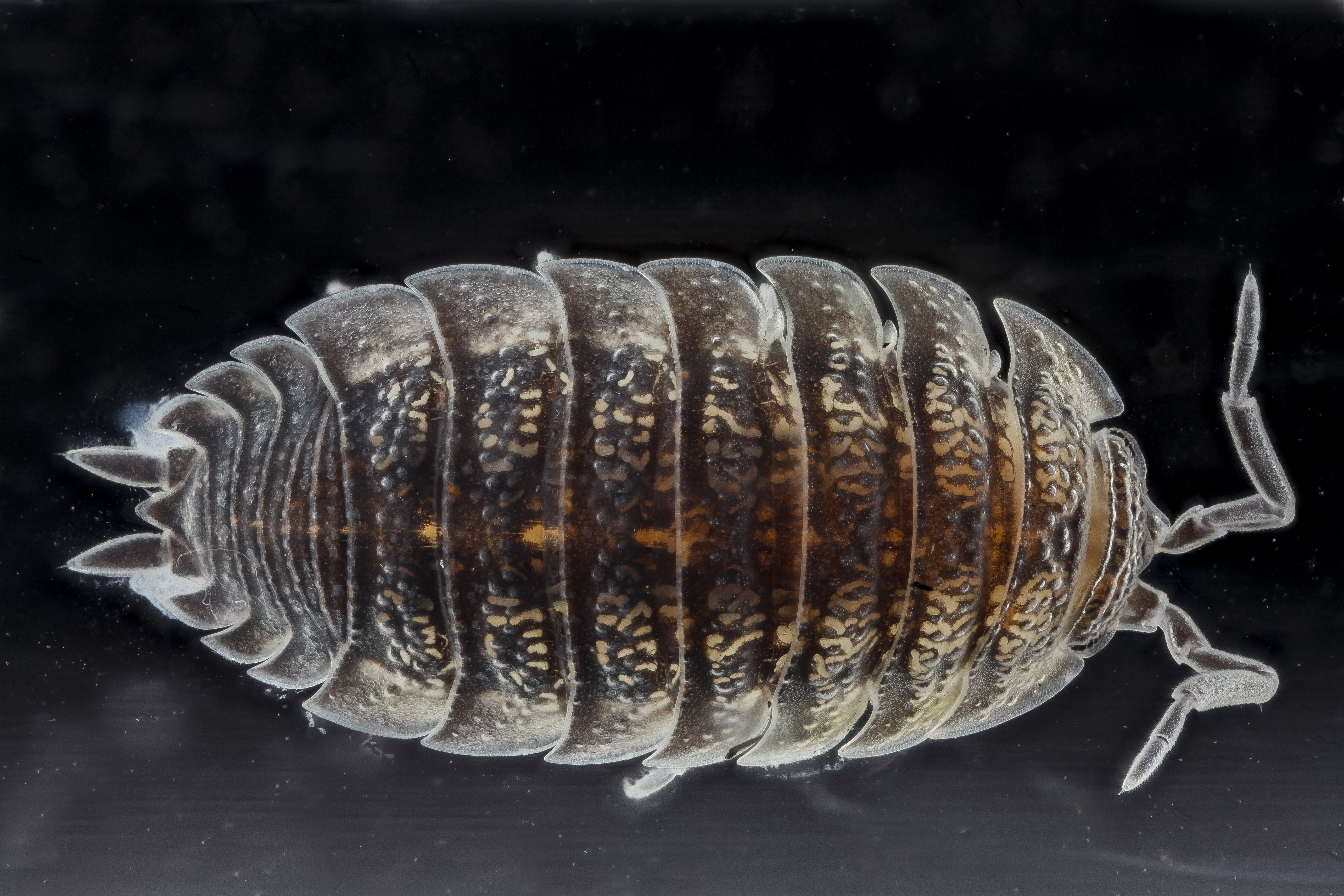 Trachelipus rathkii, sowbug, woodlice, Beltsville, Maryland, taken in a cuvette filled with hand sanitizer